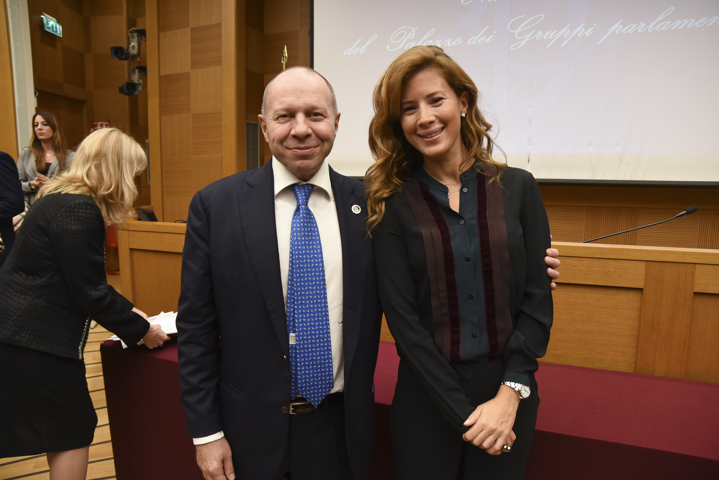 SECRETARY GENERAL ITALY-USA FOUNDATION CORRADO MARIA DACLON; POLITICIAN MP GABRIELLA GIAMMANCO